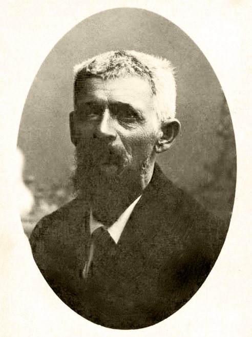 Picture of Ya'acov Shlomo Hazzanov